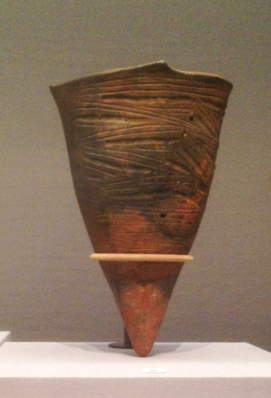 Deep bowl with engraved decoration. Kanto District. 7000-4000 BCE, Archaic Period. Tokyo National Museum